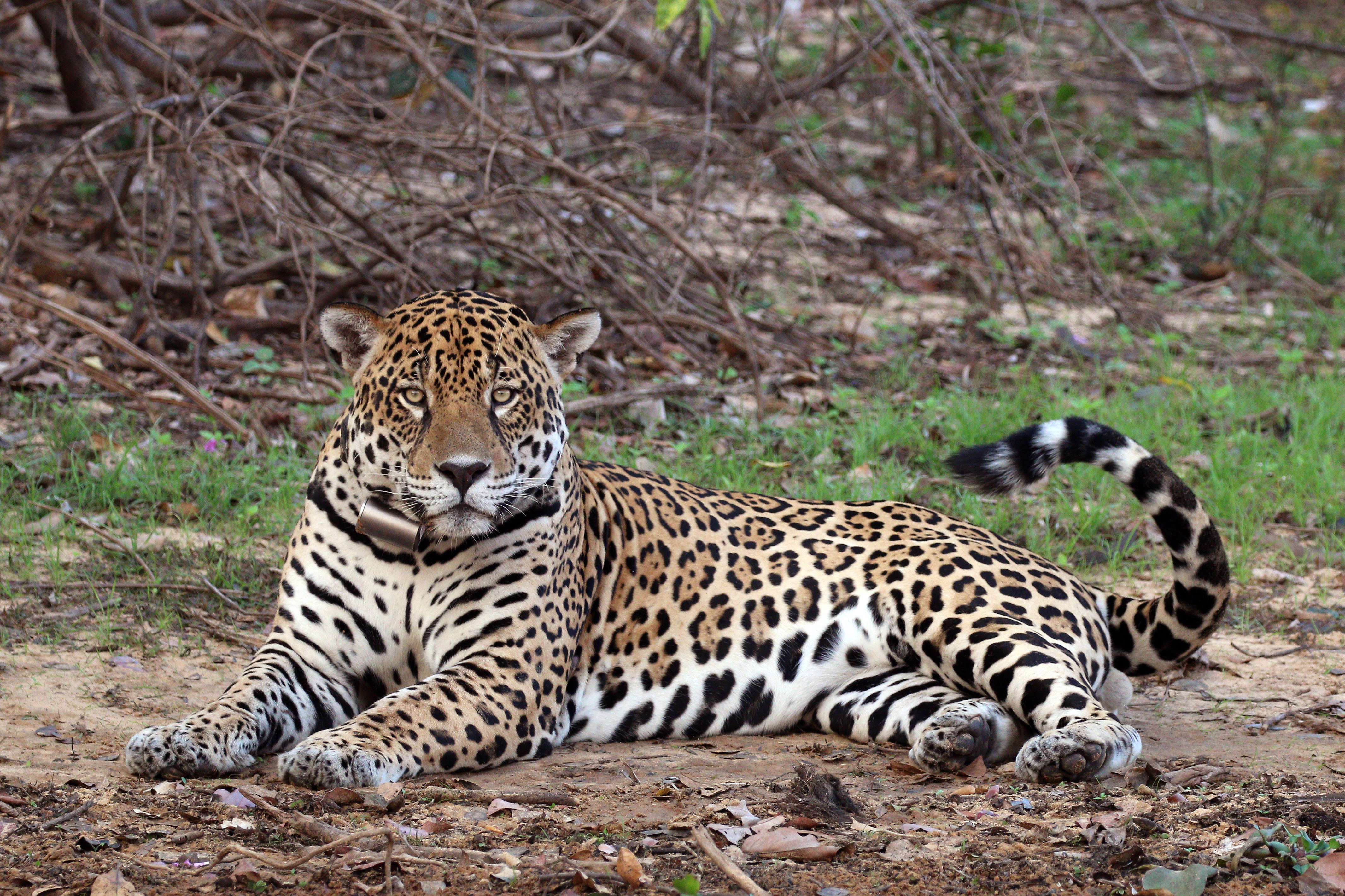 Jaguar (Panthera onca palustris) male with collar, Rio Negro, the Pantanal, Brazil